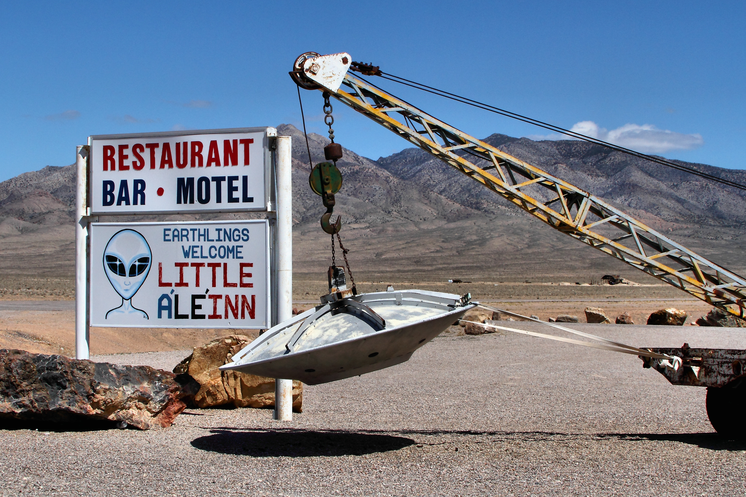 We stayed one night here, on the way to Mammoth Lakes. It's the gateway to Area 51, America's top secret airbase where it is said that UFOs and alien craft have been seen there. It was very cool to be there :-)